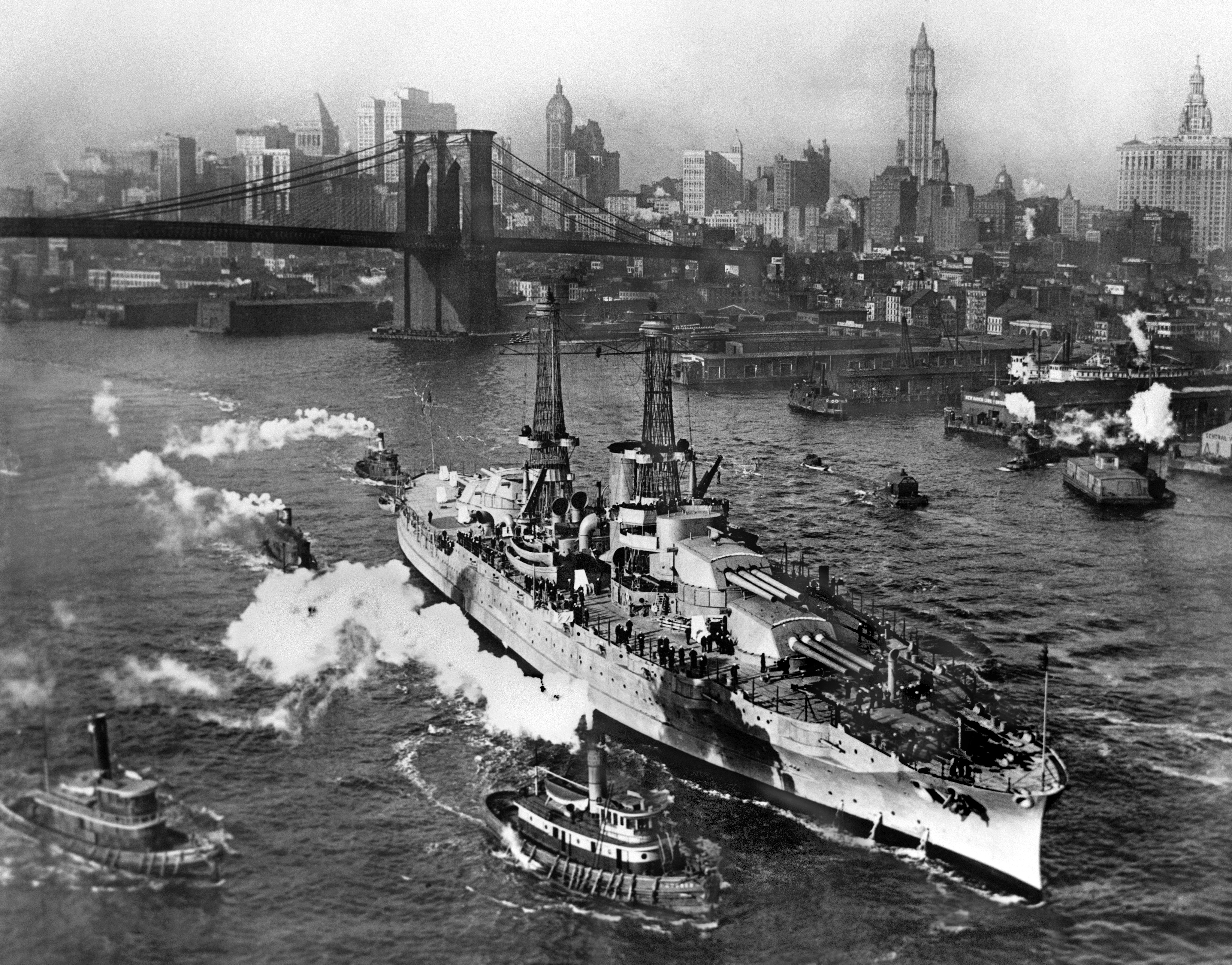 View of USS ARIZONA taken from Manhattan Bridge on the East River in New York City on its way back from sea trials. Note Christmas trees on both lookouts atop cage masts. December 25,1916.